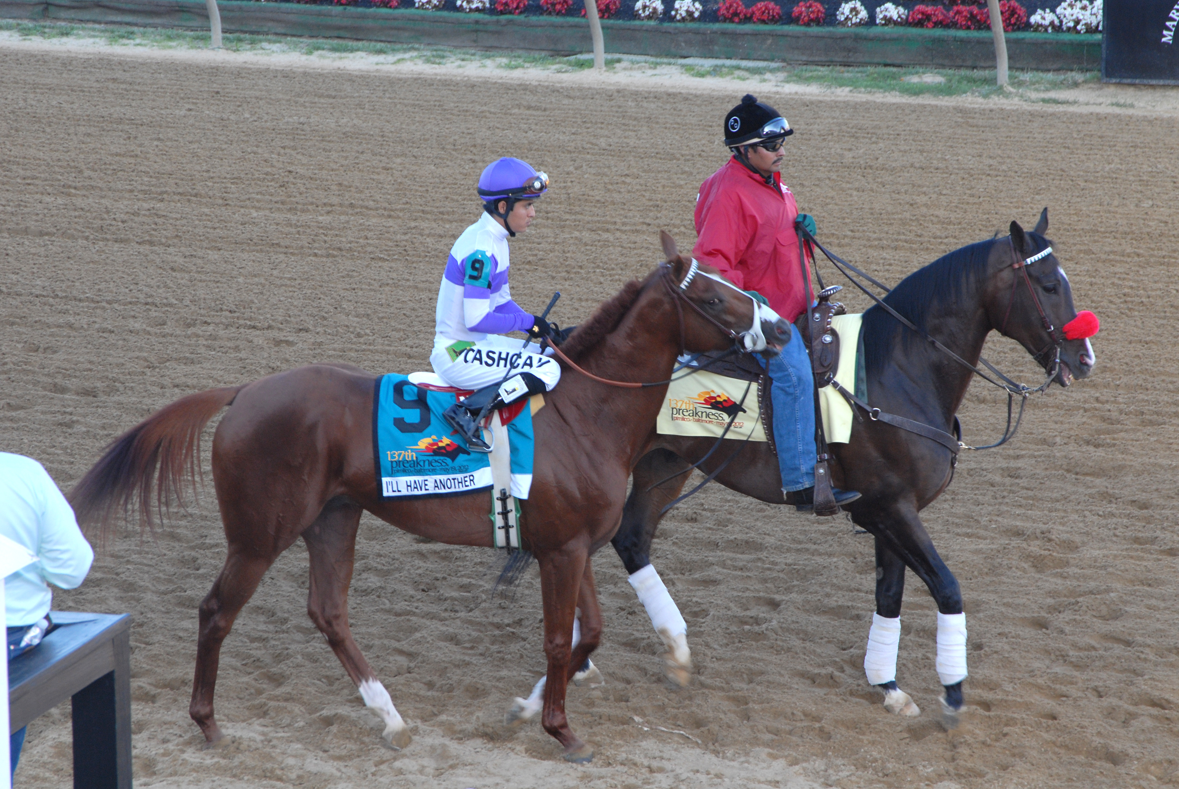 Preakness winner I'll Have Another with multimillion dollar winning lead horse Lava Man.